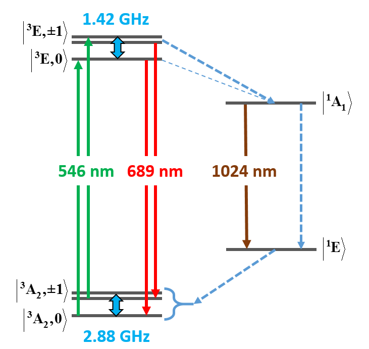 Diagram for spin dynamics in the NV$^-$ center on diamond. The primary transition between triplet ground and excited states is predominantly spin conserving. Decay via the intermediate singlets gives rise to spin polarization by preferentially switching spin from $m_s=\pm1$ to $m_s=0$. The absorption and emission wavelengths are indicated, since they differ due to Stokes and anti-Stokes shift \cite{Awschalom2013}. The diagram was mainly inspired in the one published on \cite{Rogers2015 }